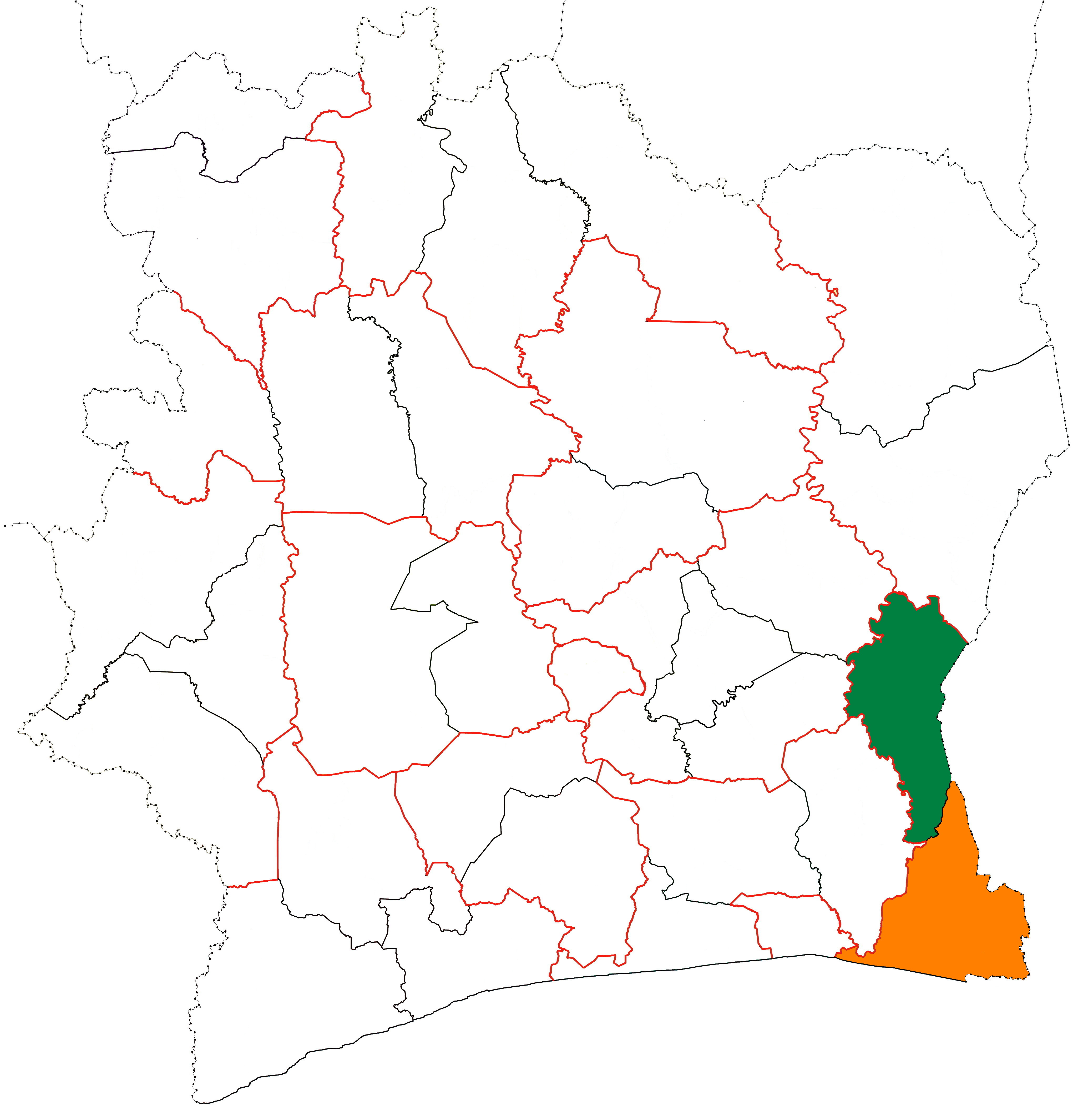 The location of Indénié-Djuablin region (green) in Côte d'Ivoire. The other shaded areas represent the other parts of Comoé District.